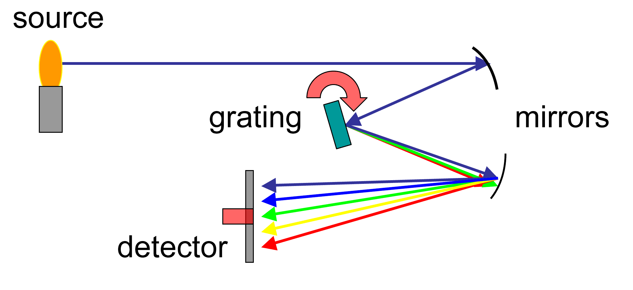 Schematic of a grating spectrometer